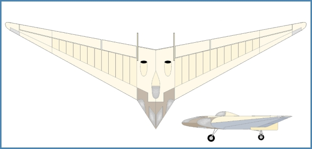 Horten 2 Flying wing modified for Jet-Test